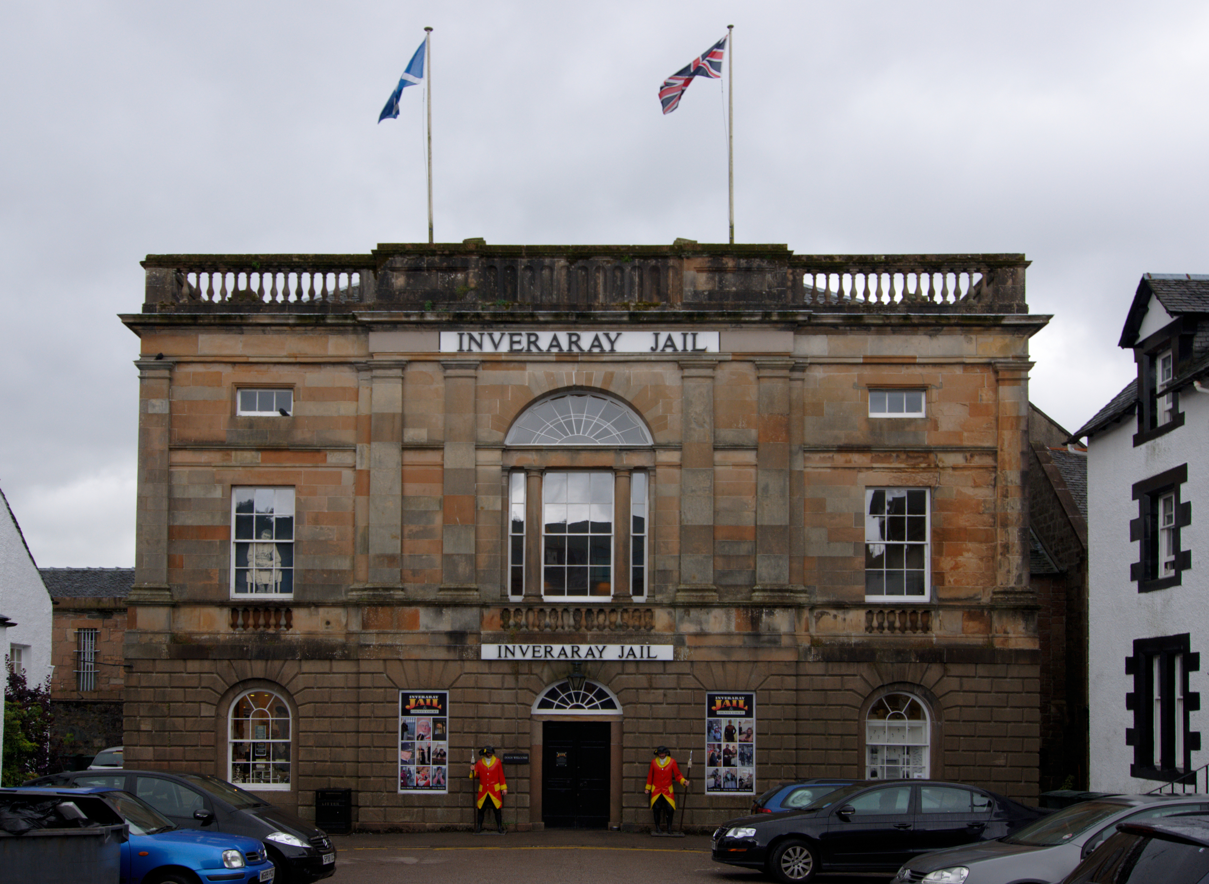 Old jail in Inveraray, Scotland